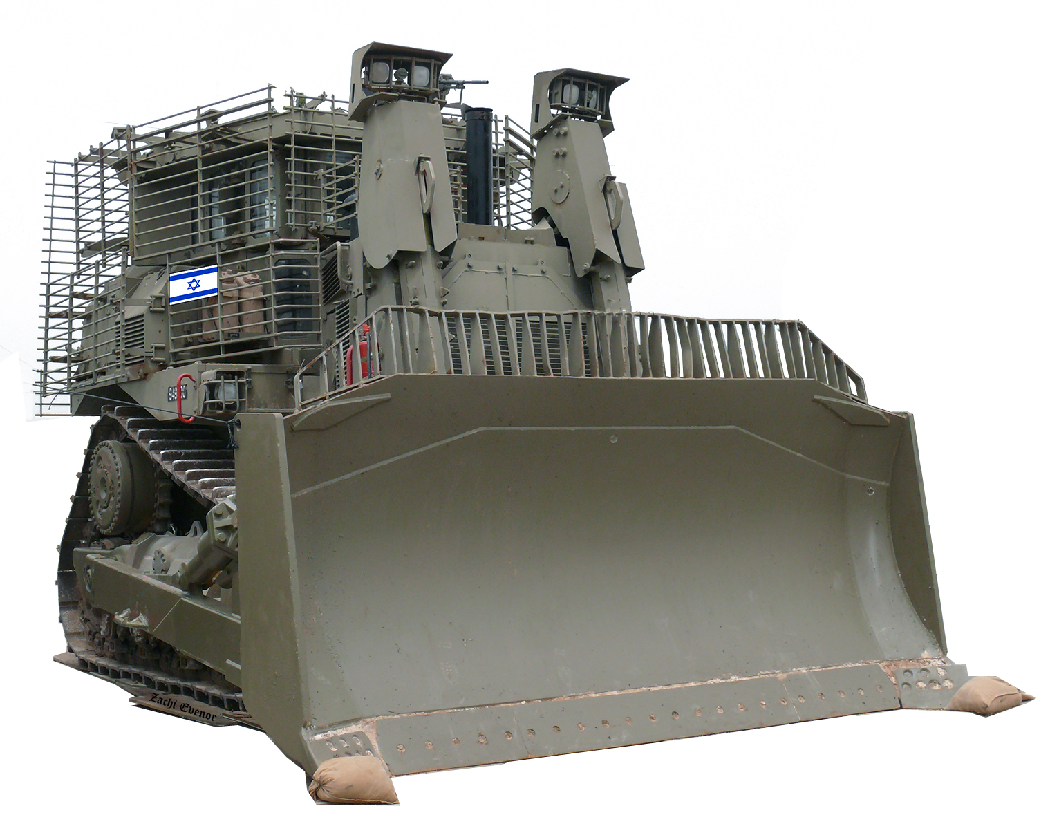 IDF Caterpillar D9 armored bulldozer - Israel 66th Independence Day